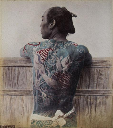 Betto. A tattooed man's back.